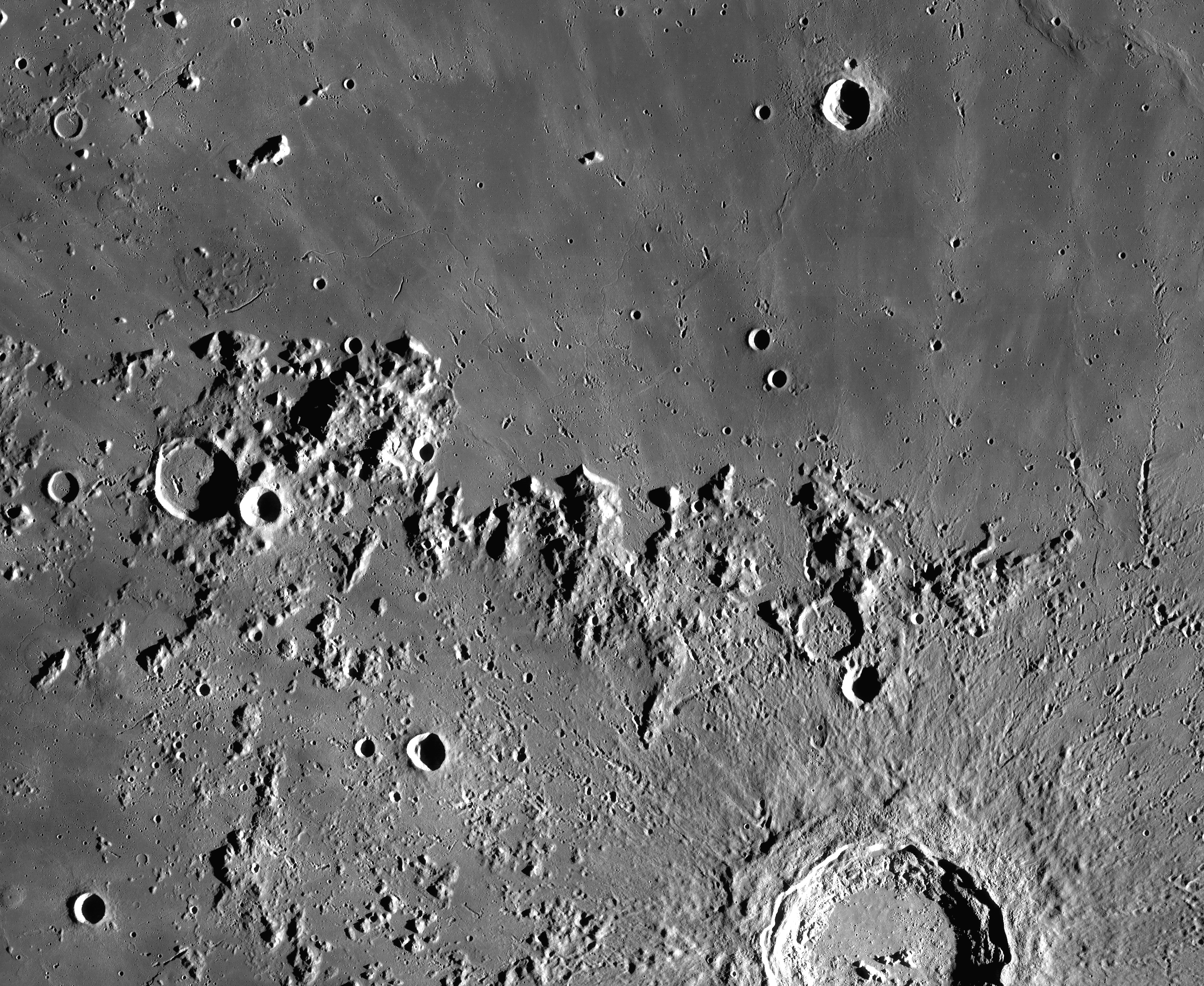 Montes Carpatus. Mosaic of photos by Lunar Reconnaissance Orbiter, made with Wide Angle Camera. Size of the image is 465×380 km, north is up.